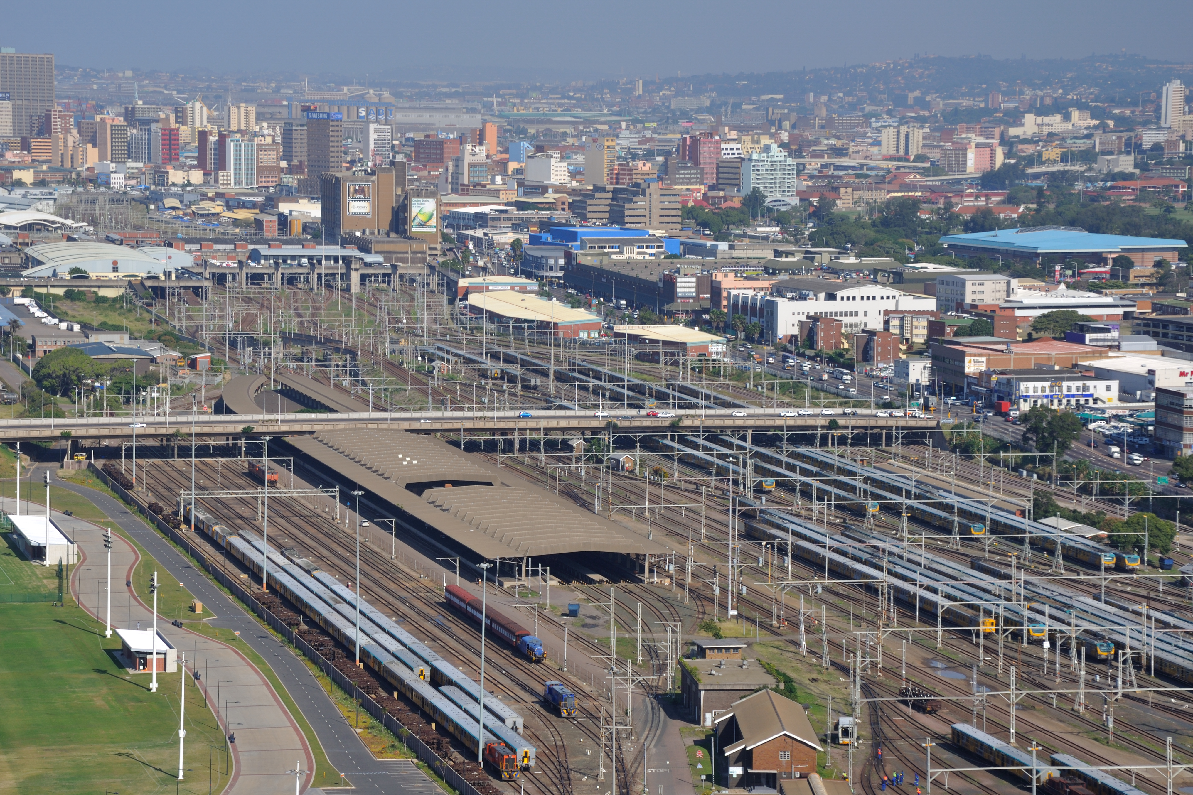 South Africa, Durban railway station from the top of Moses Mabhida Stadion